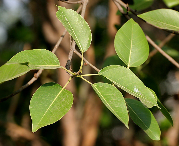 Weeping Fig or Benjamin's Fig Ficus benjamina at Lotus Pond, Hyderabad, India.